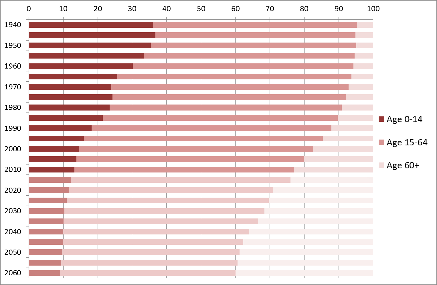 Historic population of Japan (1940-2010) from quinquennial census results. Population projection (2011-2060) from National Institute of Population and Social Security Research (IPSS) Population Projections for Japan (January 2012), based on a medium-fertility assumption, where the age of marriage and the proportion of those who never marry increases while the total fertility rate decreases to 1.35 in 2060.